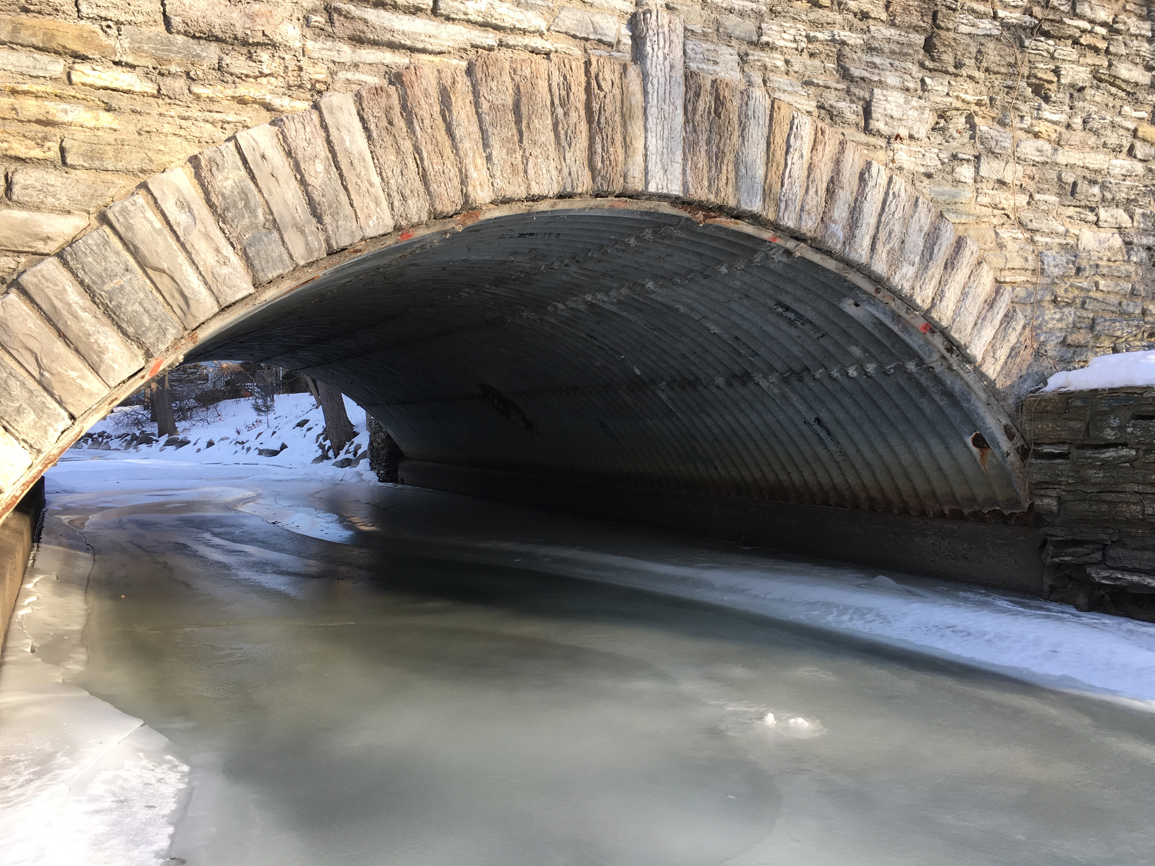 Bridge No. 90646 in Edina, Minnesota, listed on the National Register of Historic Places.